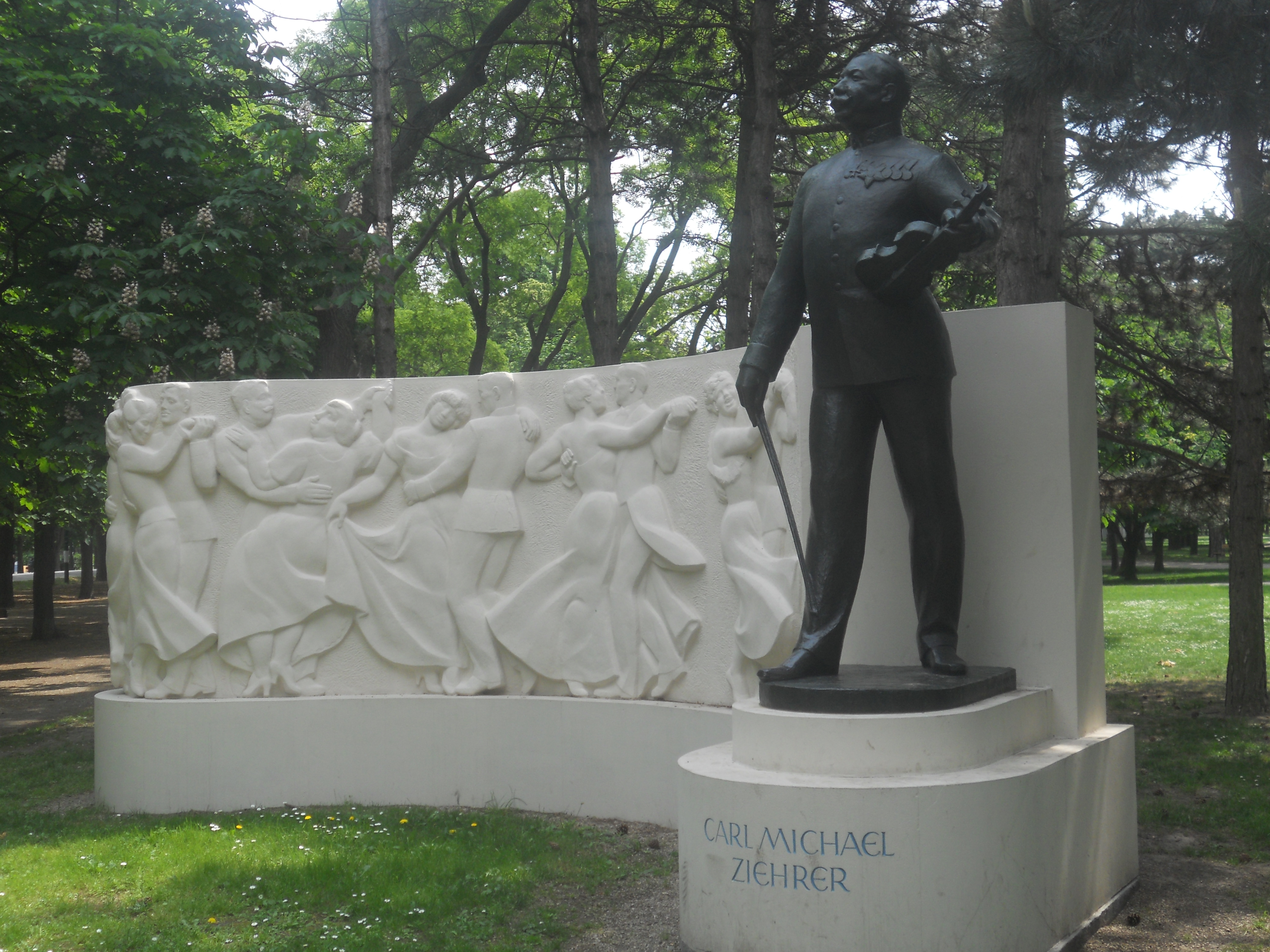 The monument to Carl Michael Ziehrer in Vienna